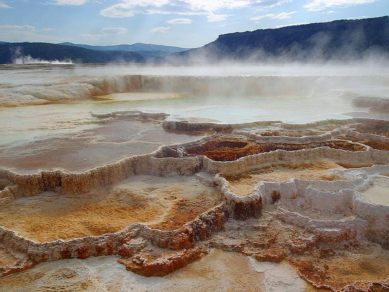 Image title: Hot spring in Yellowstone Image from Public domain images website